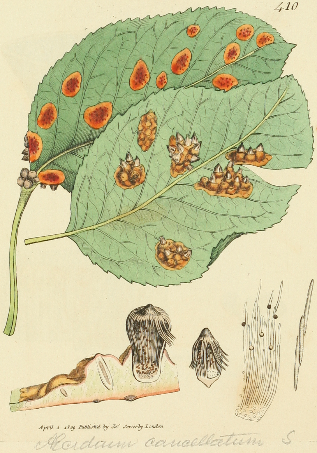 This is a plate from James Sowerby's Coloured Figures of English Fungi or Mushrooms.